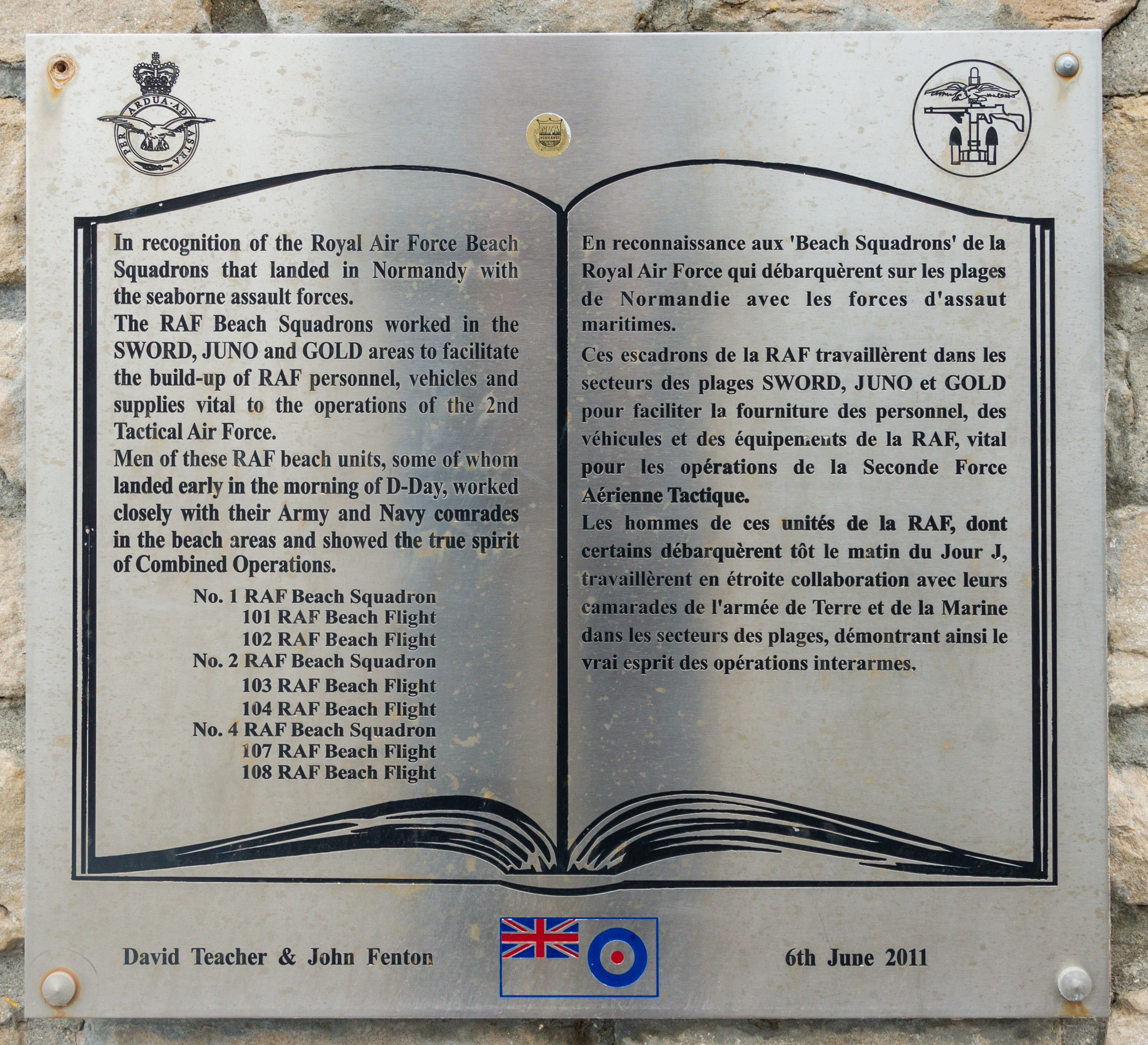 RAF Beach Squadrons memorial, Arromanches-les-Bains, Calvados, Normandy, France.